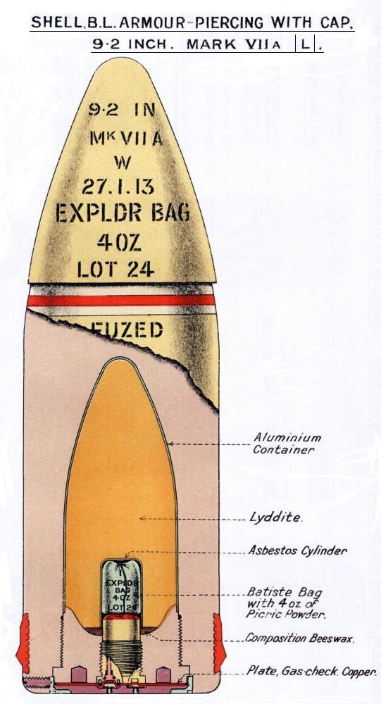 Diagram of British Capped Armour-Piercing shell Mk VIIA, for BL 9.2 inch coast defence gun. The shell is designated for Land service, such as coast defence guns. Shell as illustrated is dated 1913. Length 33.7 inches, diameter 9.165 inches, weight filled and fuzed 380 lbs. A denoted 4 c.r.h. ballistic cap. No. 16 Large Base Percussion fuze was fitted. The shell was painted yellow, with 2 white rings around the head denoting A.P., with a red ring denoting filled, and the plate-cover around the base was painted red when fuzed. Explosive filling is 33 lbs lyddite including 4 oz picric powder exploder, in an aluminium container varnished on the inside. This was necessary to totally eliminate the possibilty of the lyddite coming into contact with any metal bases, which would lead to unstable picrates forming, risking spontaneous explosion.